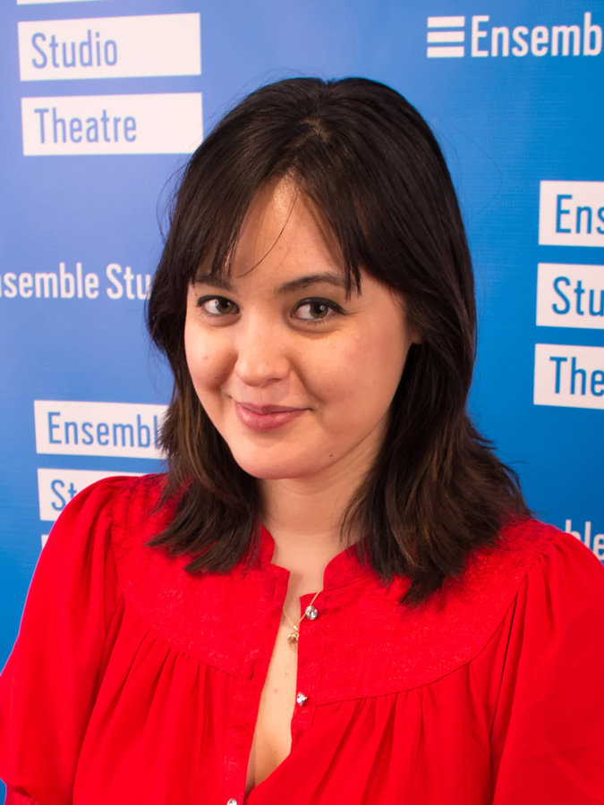 Leah Nanako Winkler, photographed at the Ensemble Studio Theatre for the 36th Marathon of One-Act Plays, for which she was a writer.